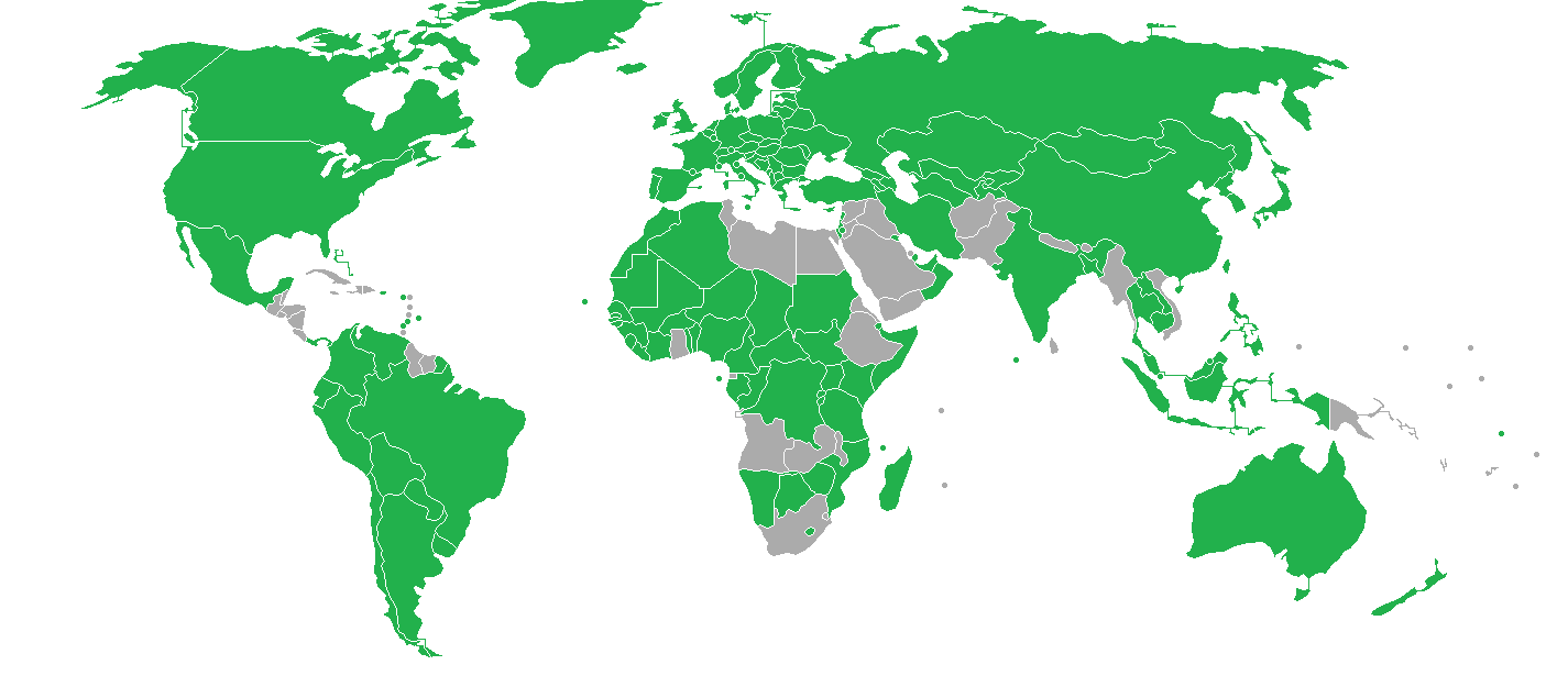 Dark green - biometric passport available to the public; light green - announced future availability.